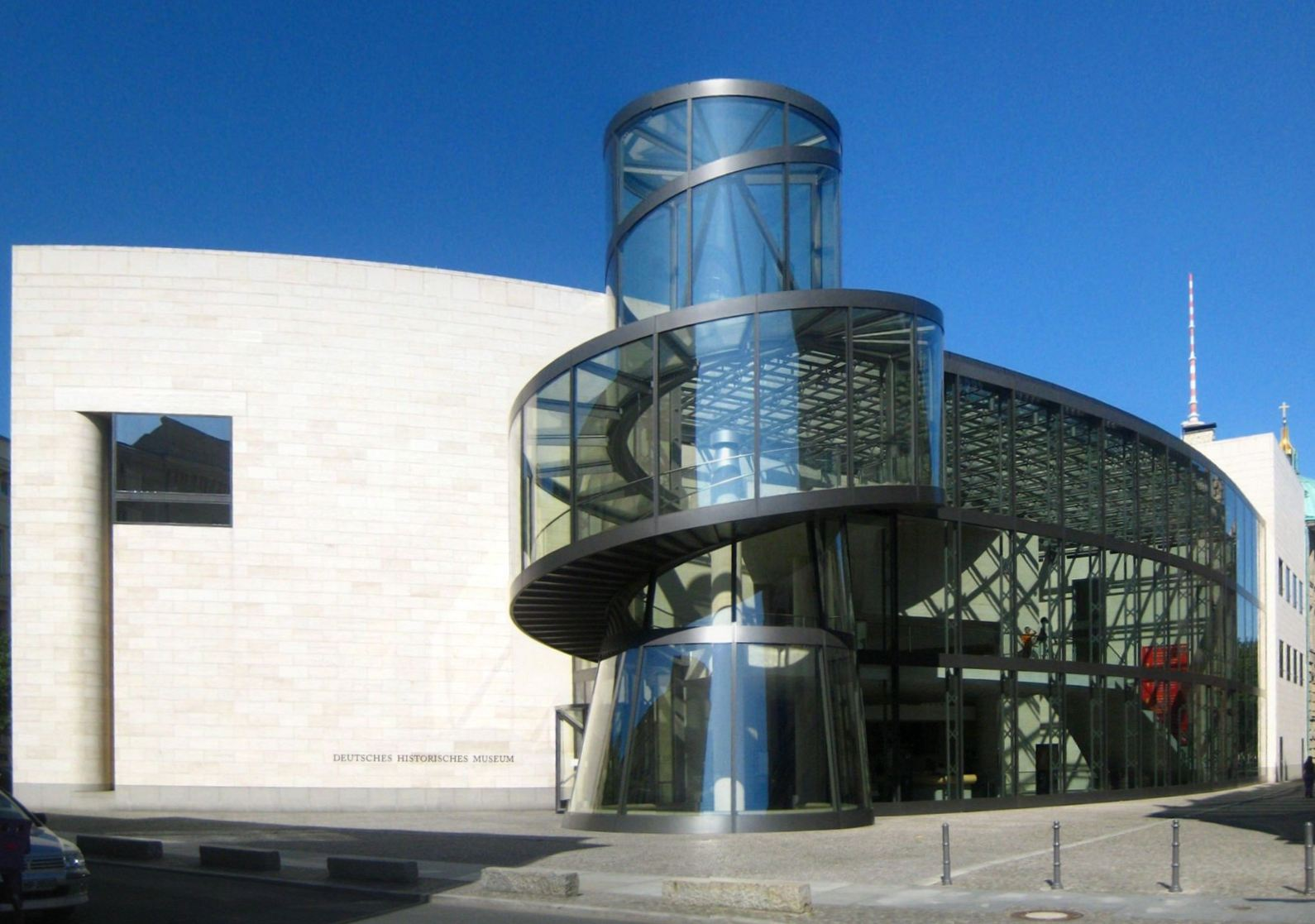 Exhibition hall of the German Historical Museum, Hinter dem Zeughaus in Berlin-Mitte, built 1999 to 2003 by I.M. Pei. The building is connected with the neighboring Old Arsenal (Zeughaus) via a tunnel.